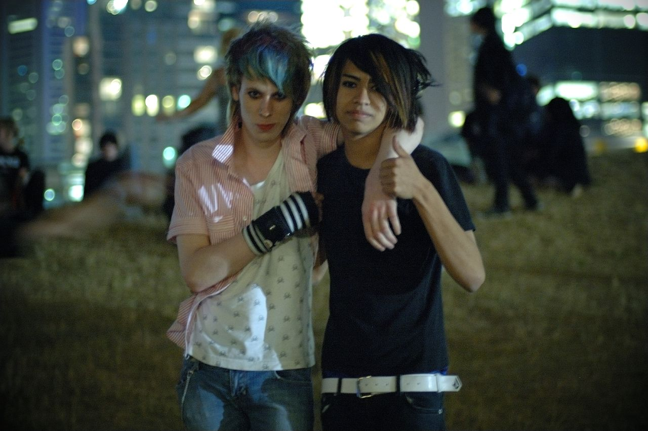 Emo kids on Batman Hill in Melbourne.